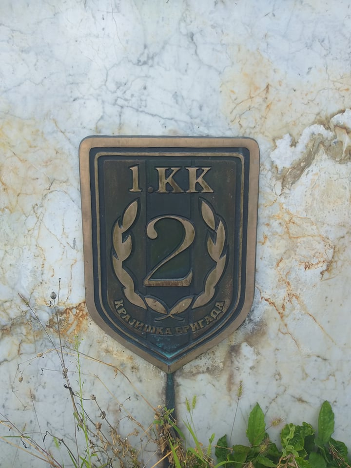 Patch of the 2nd Krajina Brigade of the Army of Republic of Srpska on the Monument to the fallen fighters in Rakovačke bare, Banja Luka. Српски (ћирилица): Амблем 2. крајишке бригаде ВРС на Споменику погинулим борцима 2. крајишке бригаде на Раковачким барама у Бањој Луци.